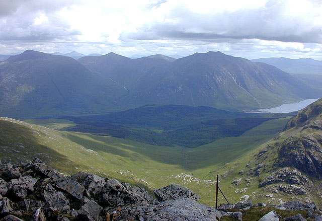 View south from Sgùrr na h-Ulaidh Looking down the glen of the Allt na Gaoirean towards Glen Etive. A track through the forestry from Invercharnan reaches the glen close to the stream and can be used as an approach both to Beinn Fionnlaidh and this mountain. On the other side of Glen Etive lie the peaks of Stob Coir' an Albannaich, Glas Bheinn Mhòr and Ben Starav.